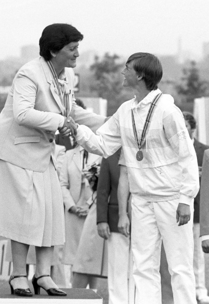 Ketevan Losaberidze and Päivi Meriluoto at the 1980 Olympics